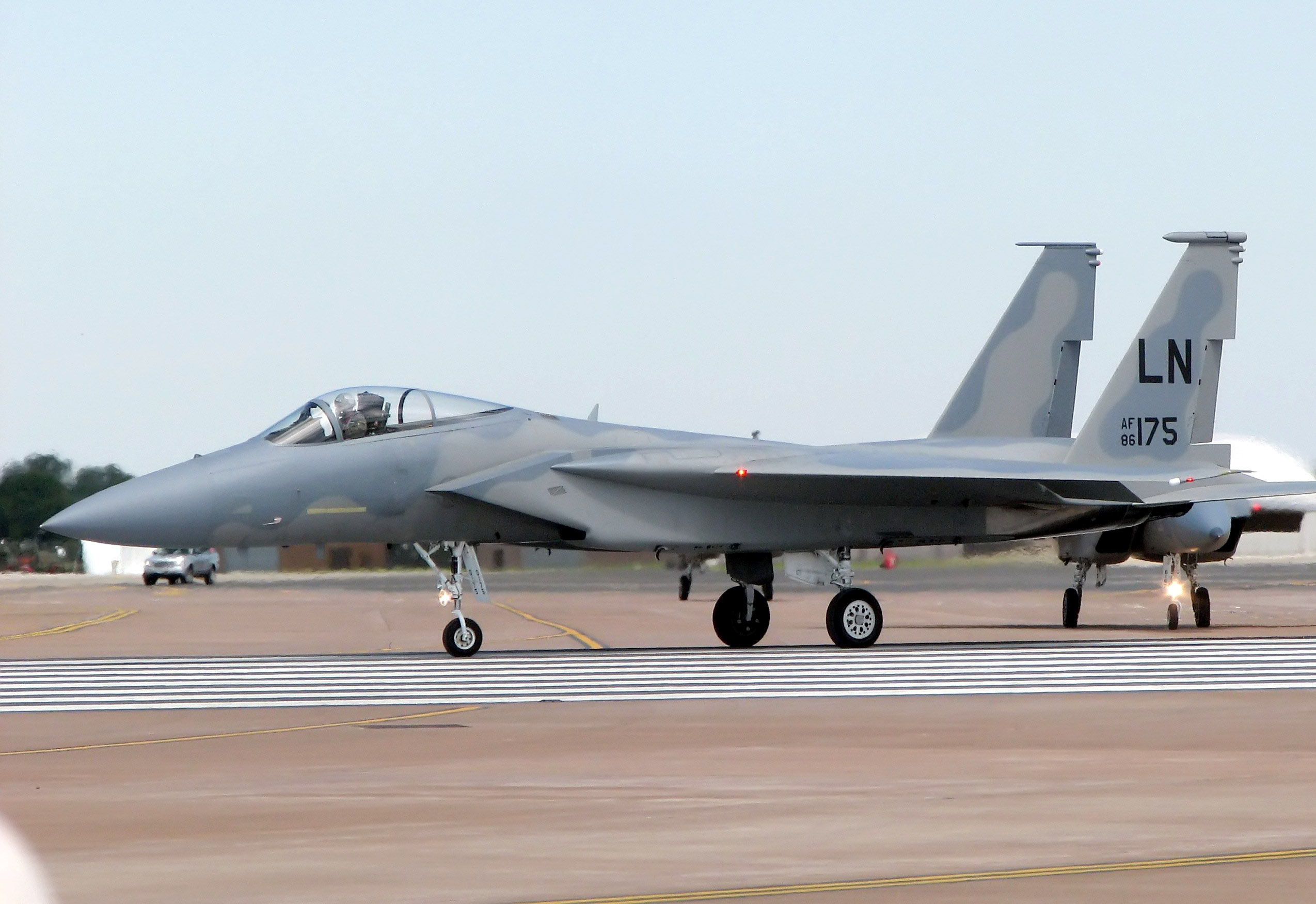 F-15C Eagle (identifier 86-0175/LN), of the United States Air Force, taxis for takeoff at the Royal International Air Tattoo, RAF Fairford, Gloucestershire, England.